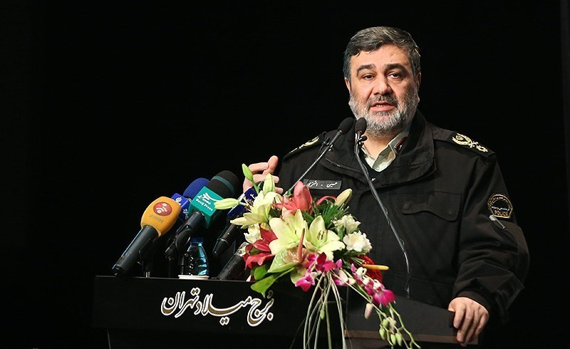 Commander of Law Enforcement Force of Islamic Republic of Iran